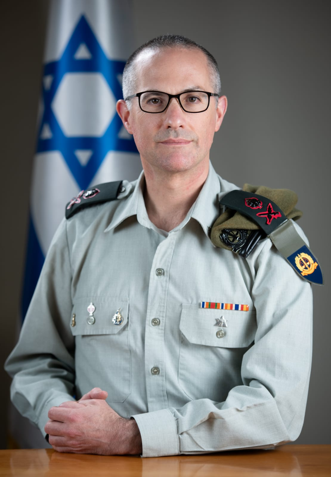 Sharon Afek.